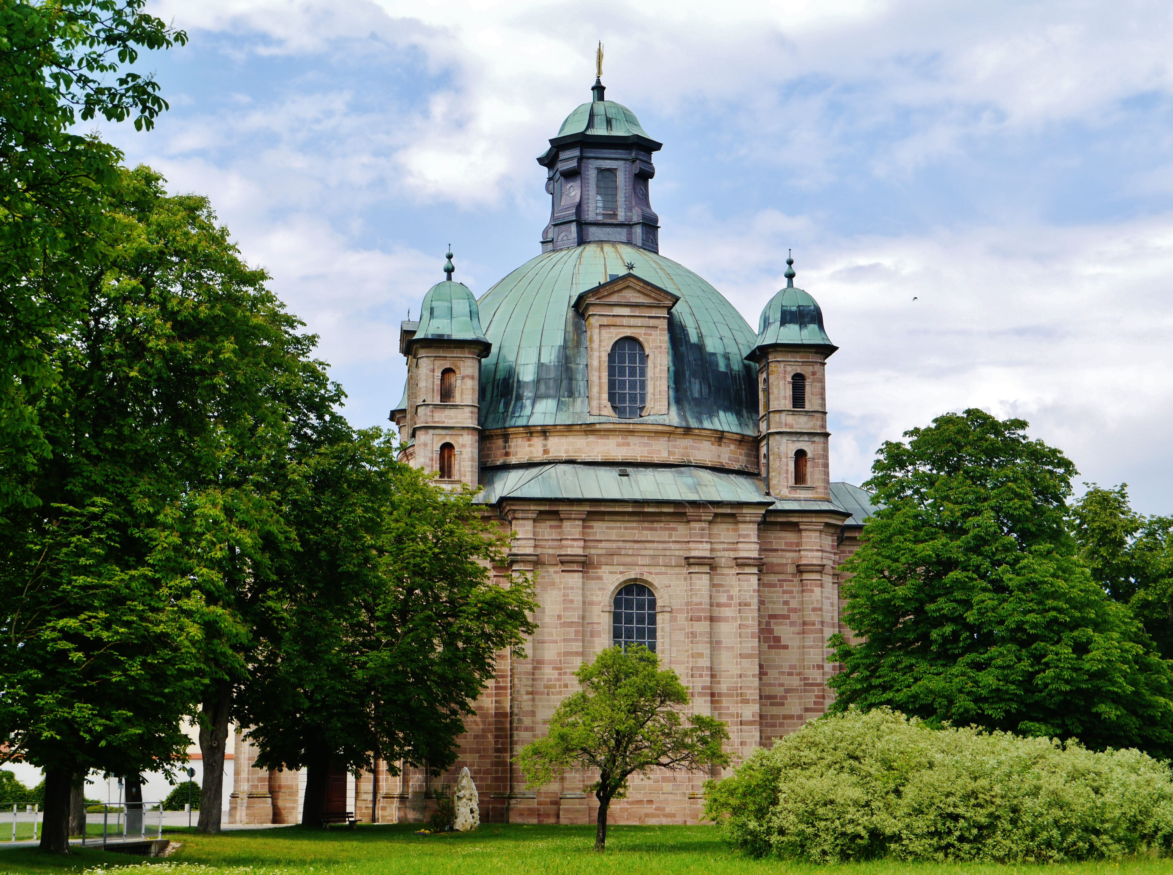 Pilgrimage Church of Mary Help, Freystadt, Bavaria, Germany